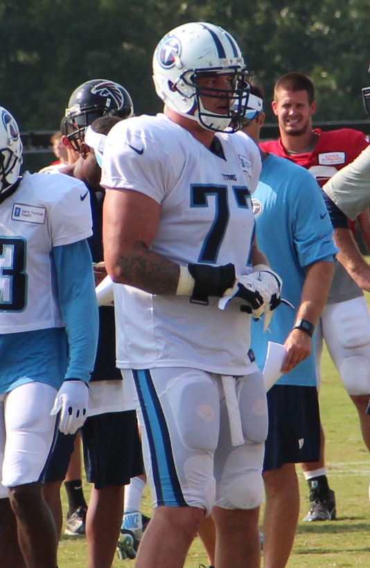 Taylor Lewan in 2014